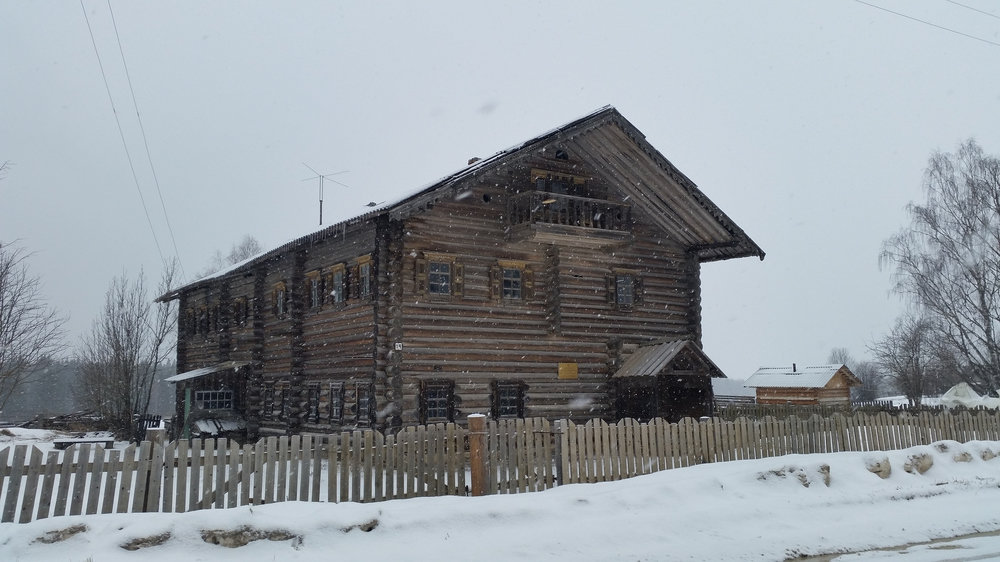 Курная изба в деревне Березник Вельского района Архангельской области